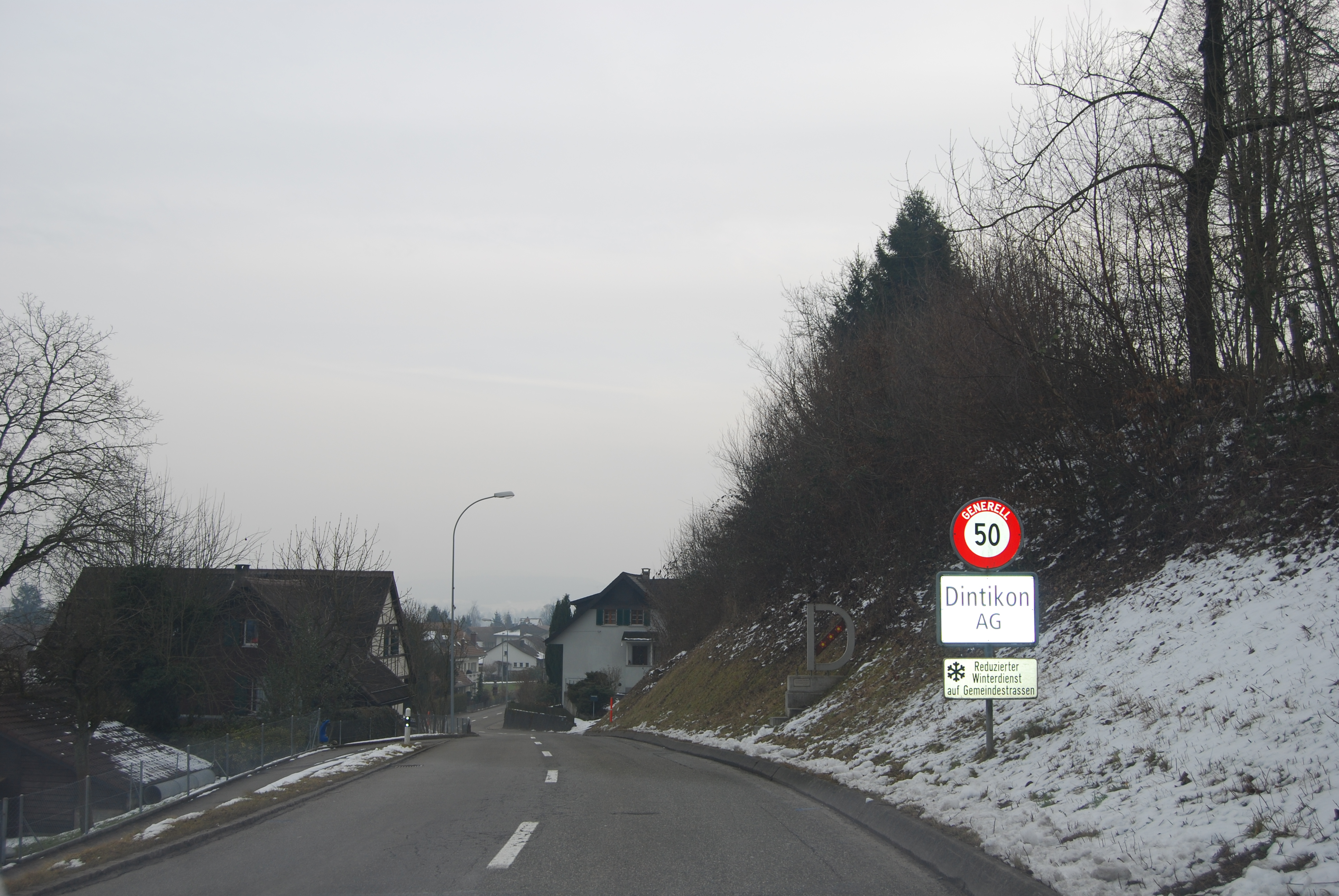 Village entry of Dintikon, canton of Aargau, SwitzerlandEsperanto: Vilaĝeniro de Dintikon, Kantono Argovio, Svislando